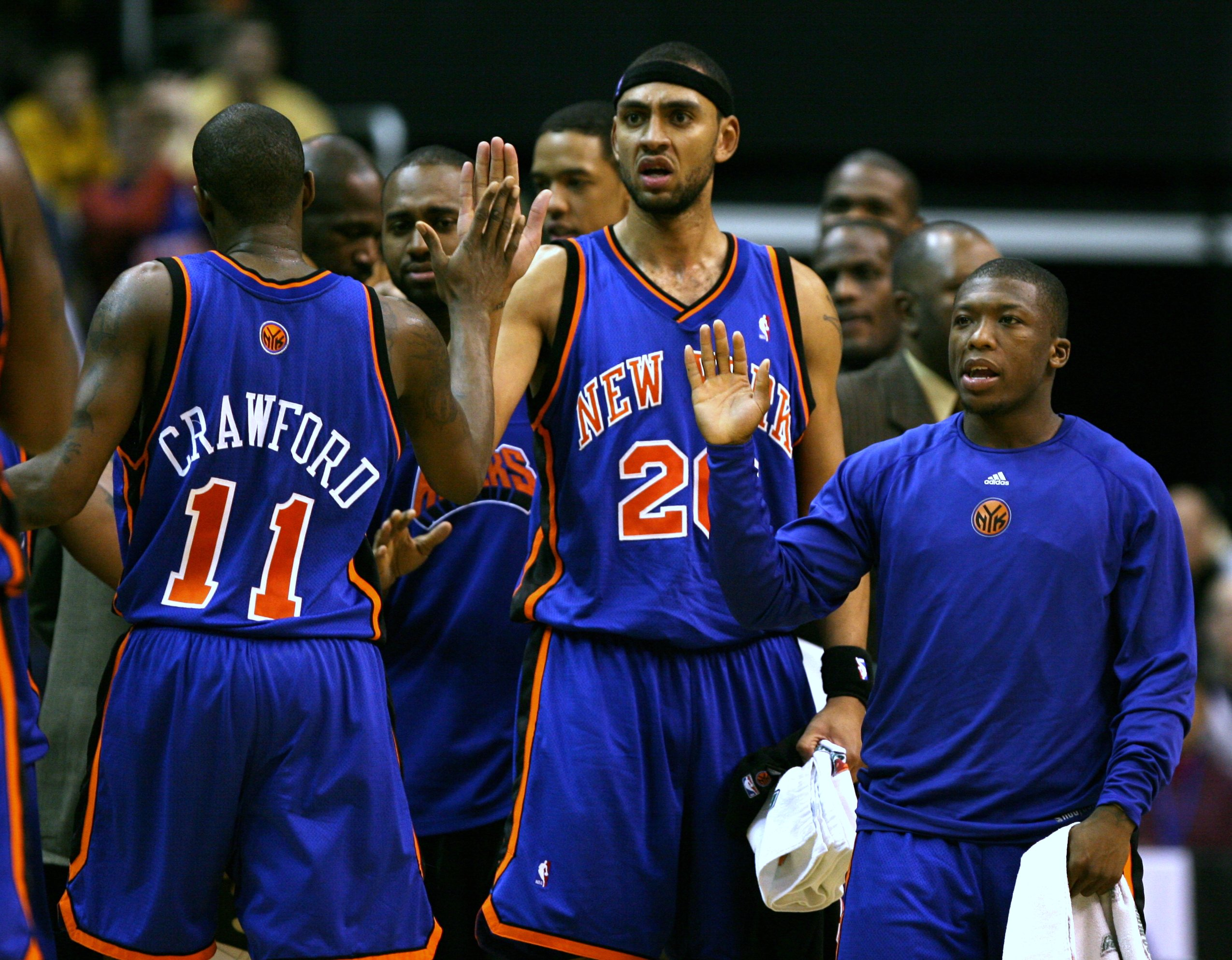 New York Knicks